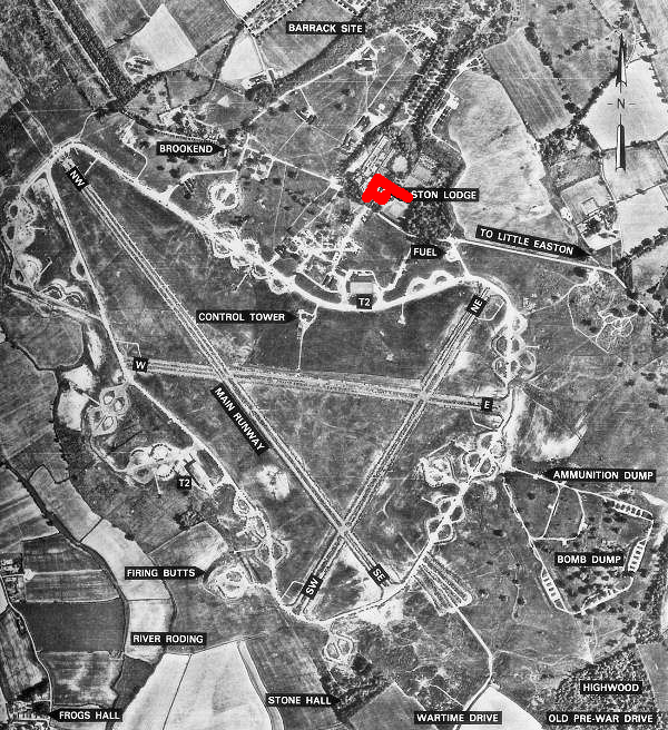 Great Dunmow Airfield, England 2 June 1947 with the position of Easton Lodge marked in Red by Ivolocy. Source of original image: Royal Ordinance Survey. Annotations on photo from Freeman, Roger A., Airfields Of The Eighth, Then And Now, 1978